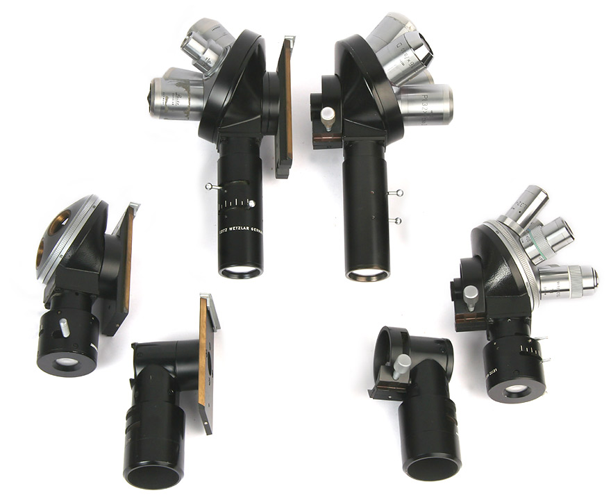 Retrofit Ortholux Components